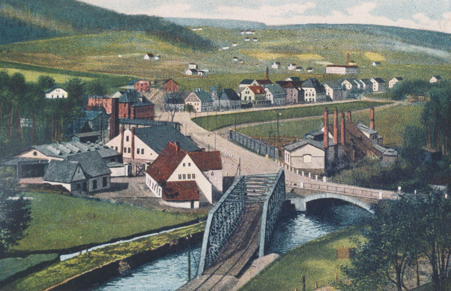 view from Oberneuschönberg on Olbernhau (Grünthaler Straße) with the historic copperworks Olbernhau-Grünthal and the bridge of the railway from Olbernhau to Neuhausen in the foreground.